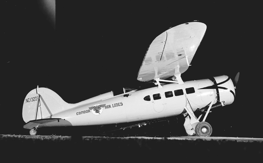 Consolidated "Fleetster" 20A, NC13209, at Alameda, CA in 1939. Condor Air Lines had a short- lived run between Alameda and Monterey.